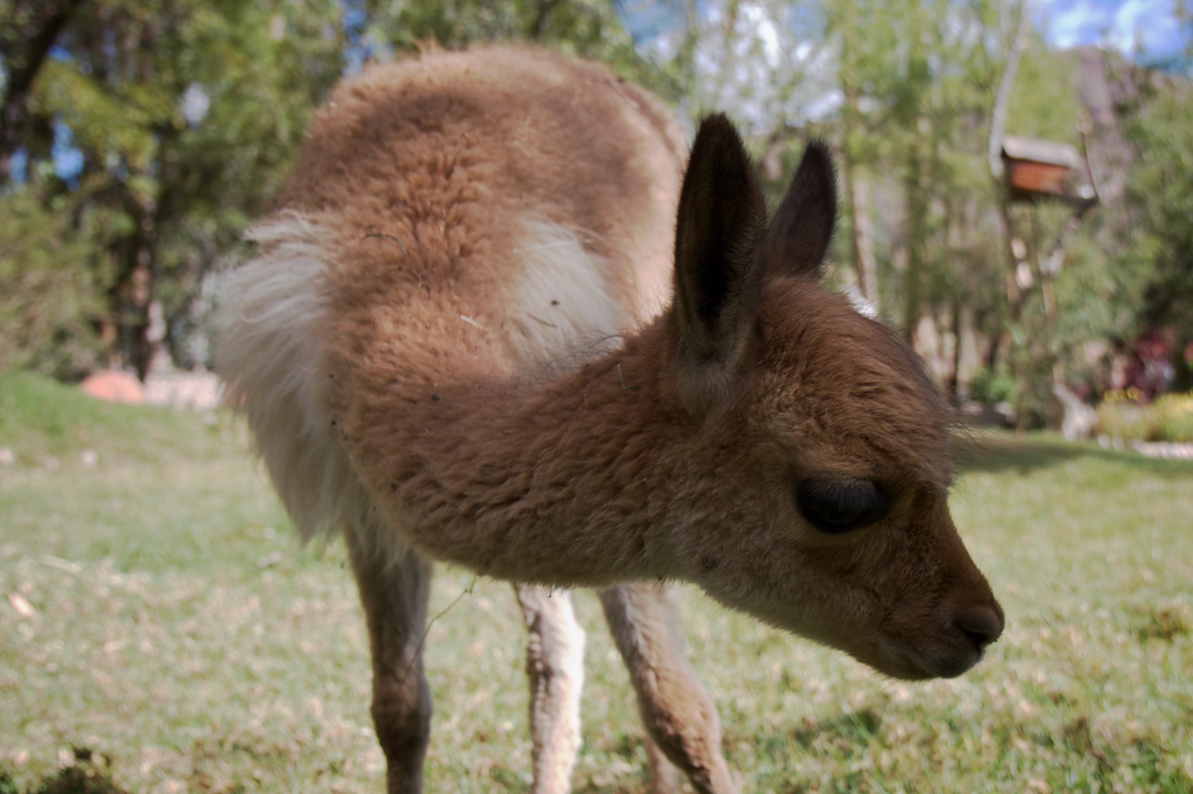 A vicuña (also known as vicugna) in Sacred Valley, Peru.